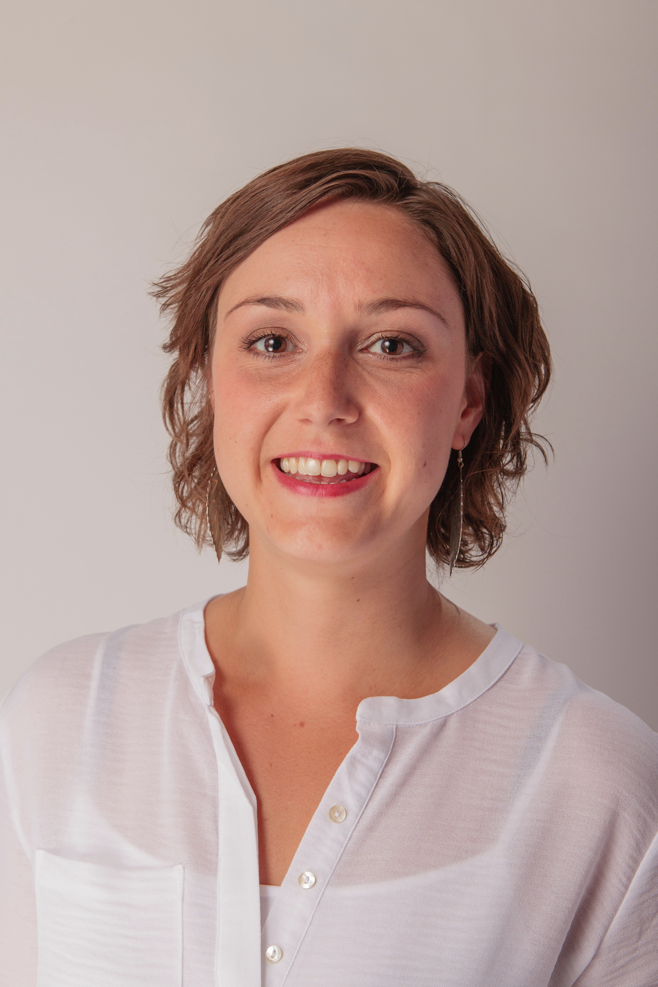 Socialistische Partij Candidate for the House of Representatives during the 2012 general elections.